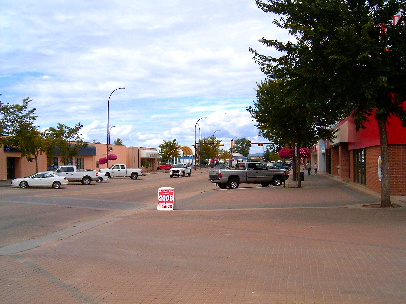 Mainstreet Slave Lake, Alberta looking north.